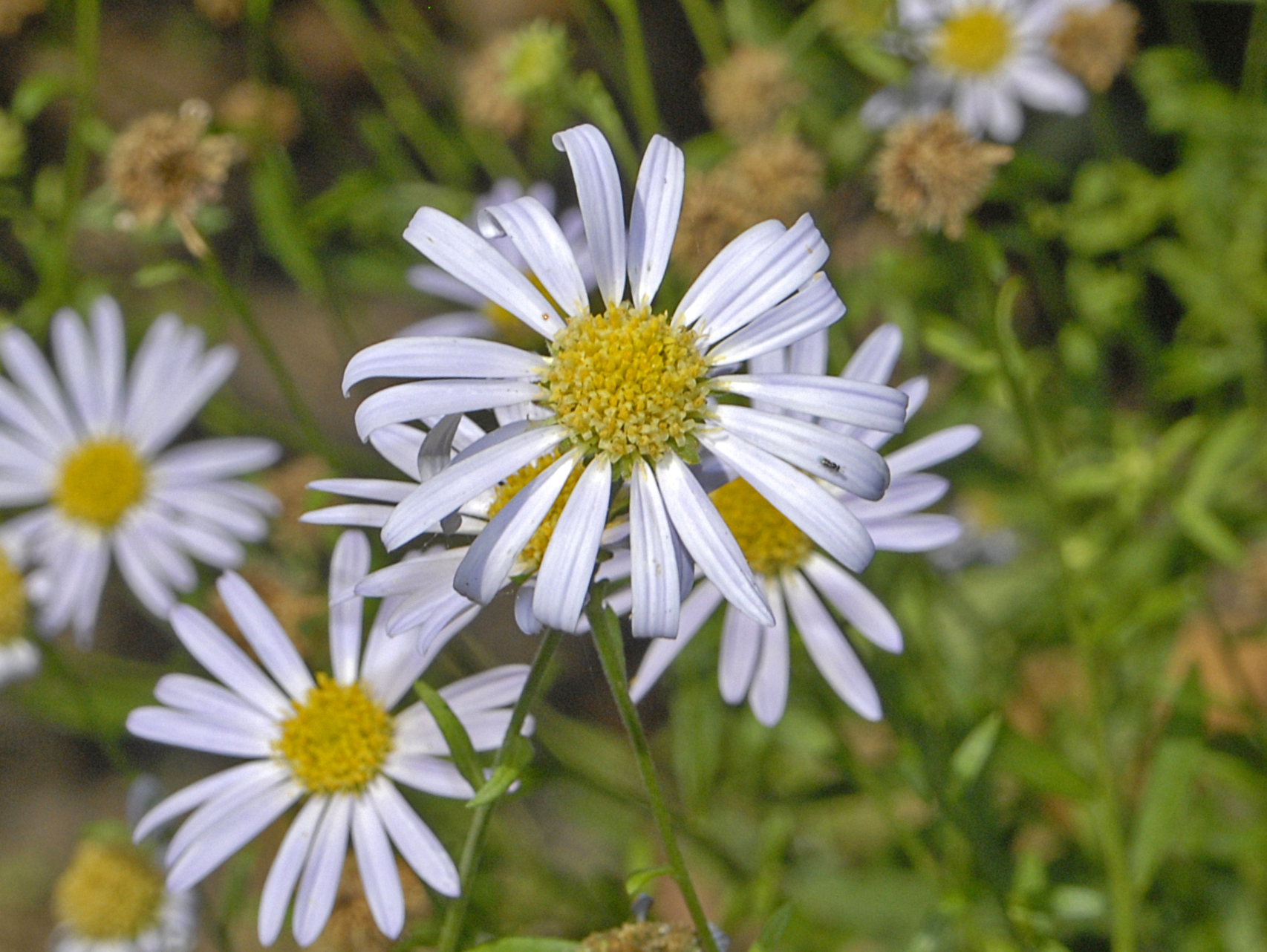 Kalimeris incisa at the Orto Botanico di Brera, Milano